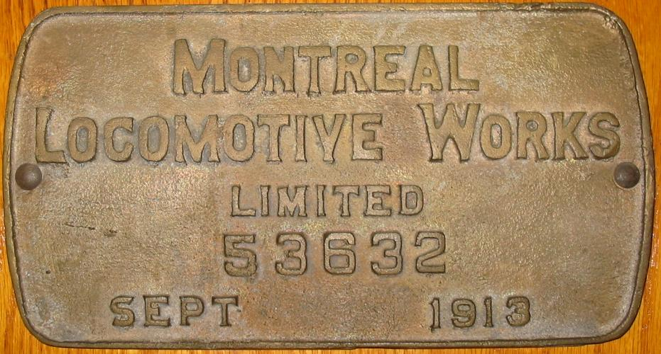 Montreal Locomotive Works builder's plate on display at the MidContinent Railway Museum, North Freedom, WI Photo by Sean Lamb (Slambo), October 10 2004